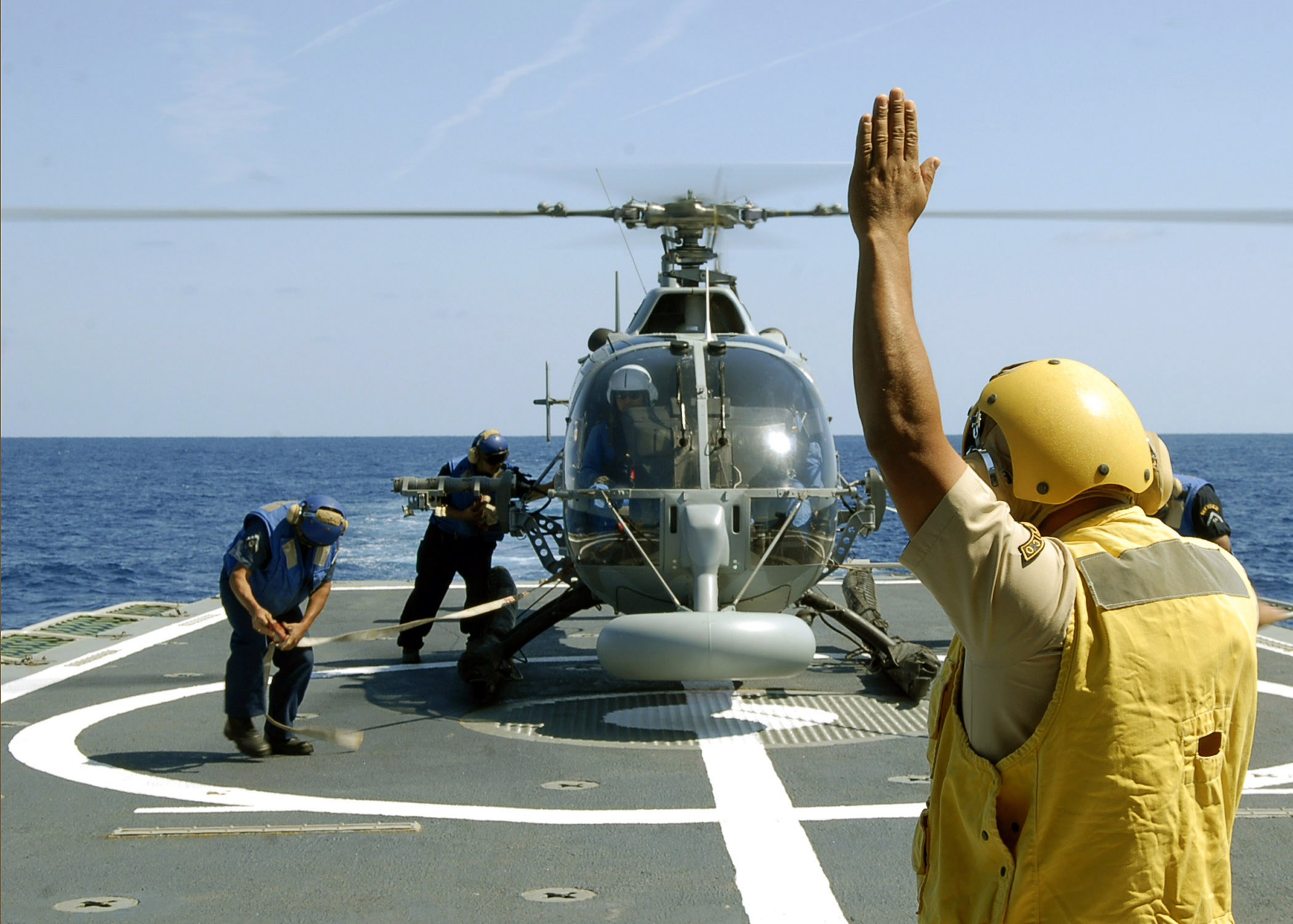 ATLANTIC OCEAN (April 26, 2009) 1/Er. Miestre Jesus Espinosa Santiago guides a Bolkow BO-105 helicopter to land on the flight deck of the Mexican Navy ocean patrol ship ARM Oaxaca (PO-161). Oaxaca is participating in exercise UNITAS Gold, an annual multinational exercise to train maritime forces and promote maritime security and stability in the region. Participating nations include Brazil, Canada, Chile, Colombia, Ecuador, Germany, Mexico, Peru, U.S. and Uruguay. (U.S. Navy photo by Mass Communication Specialist 2nd Class Brandon Shelander/Released)